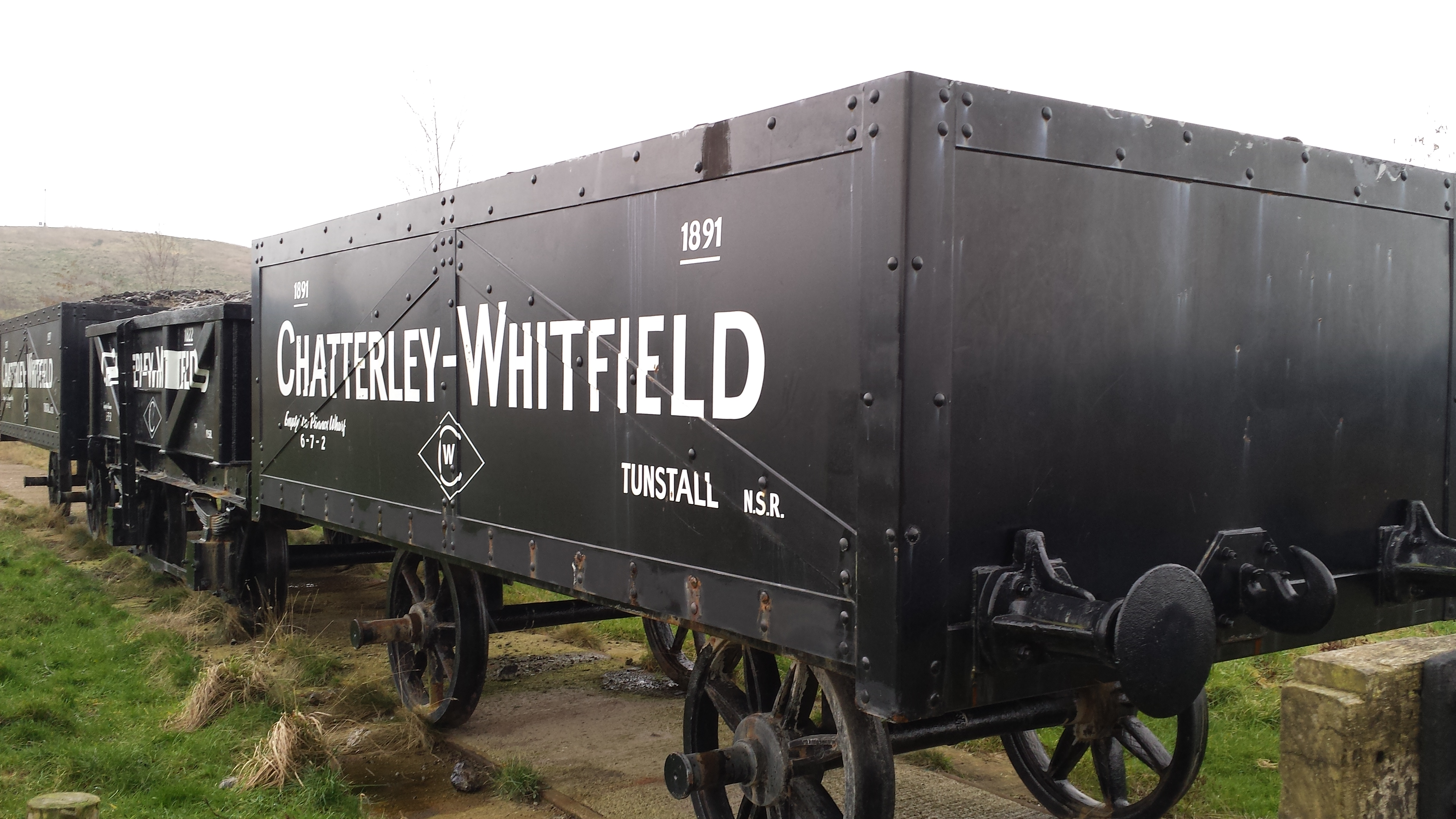 Coal tubs at Chatterley Whitfield Colliery